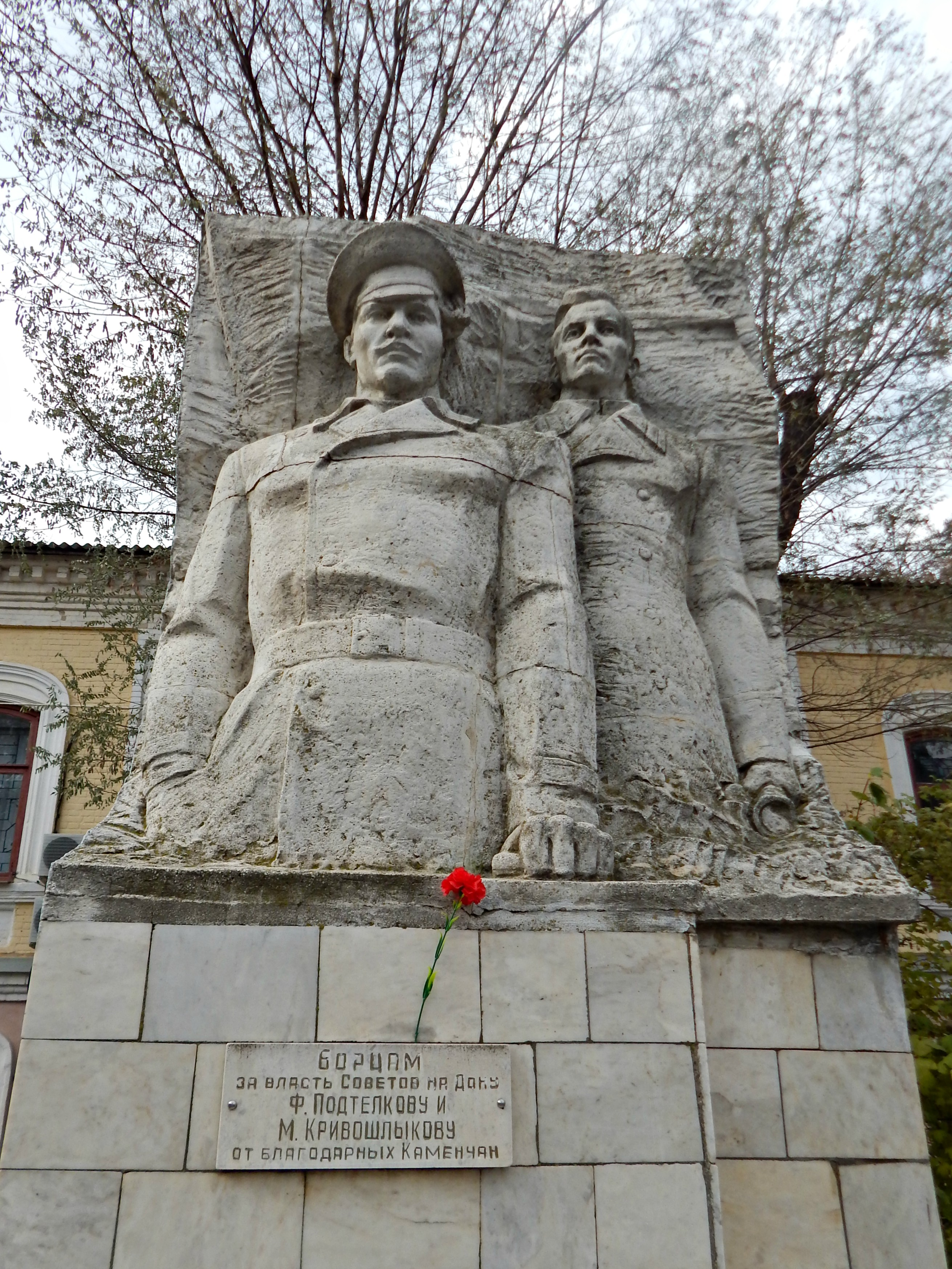 The building of the first in the Don area military and revolutionary committee headed by F. G. Podtelkov and M. V. Krivoshlykov: Rostov region, Kamensk-Shahtinskiy, prospekt Karla Marksa, 56